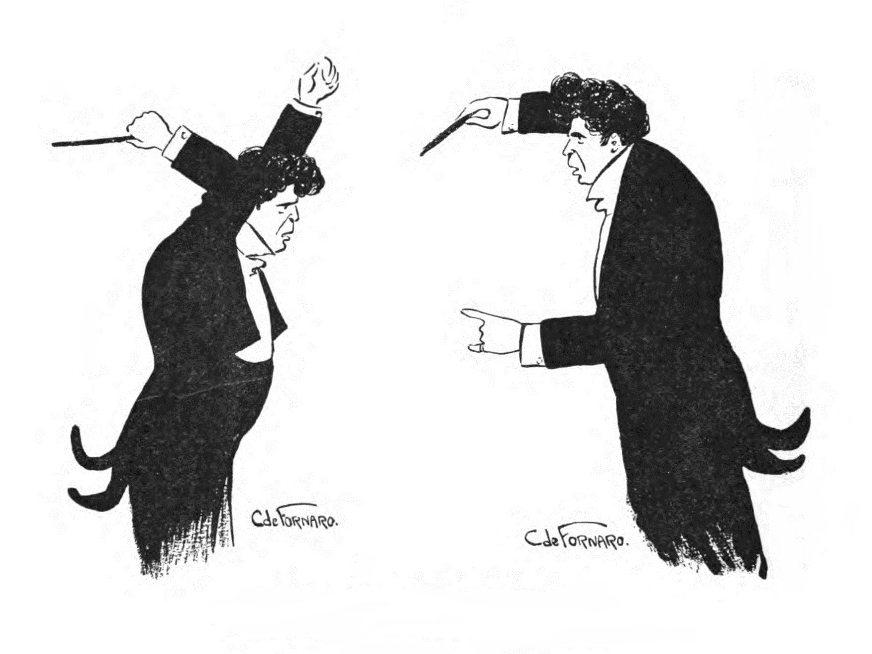 "Signor Mascagni Conducting his Operas"